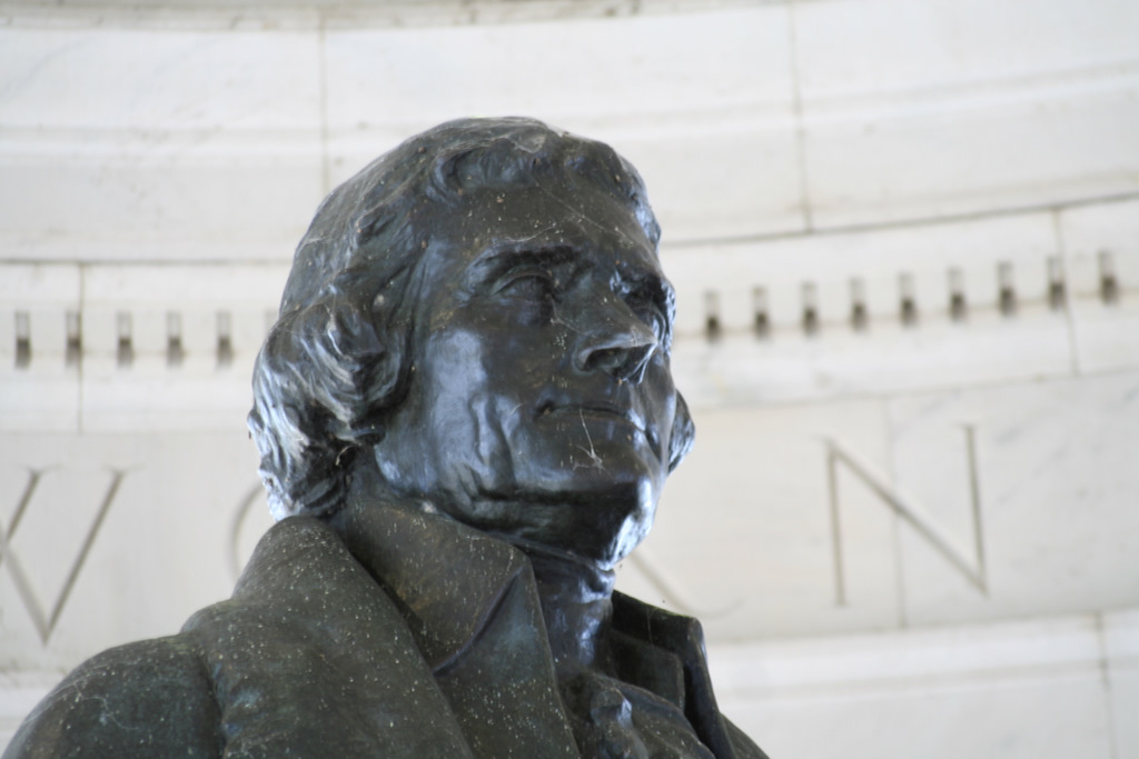 Closeup of statue at Jefferson Memorial